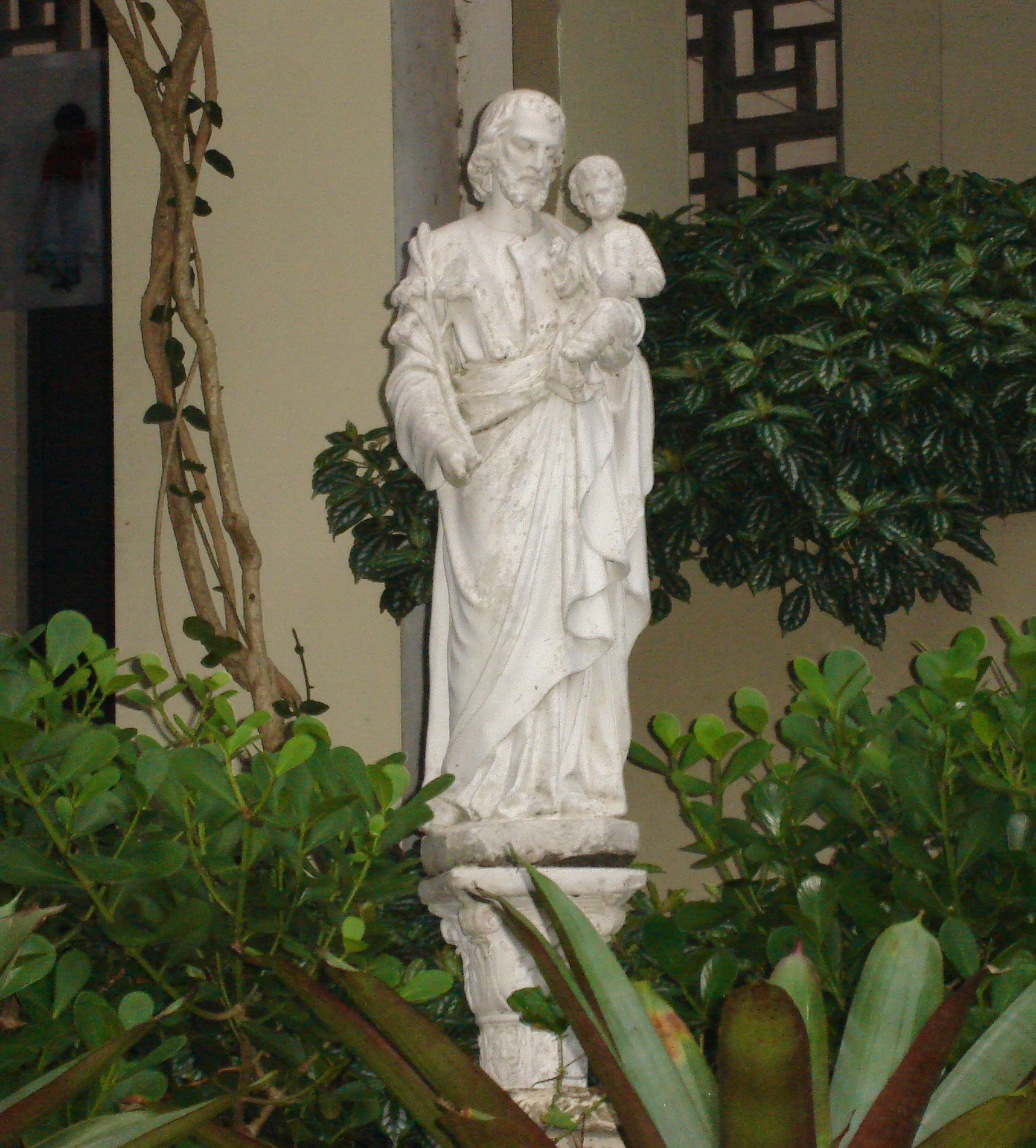 Saint Joseph.